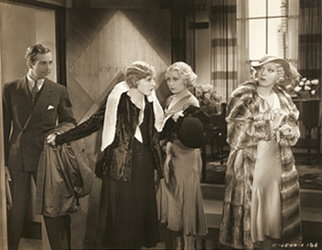 Movie still of David Manners, Madge Evans, Joan Blondell, Ina Claire from The Greeks Had a Word for Them (also known as Three Broadway Girls)